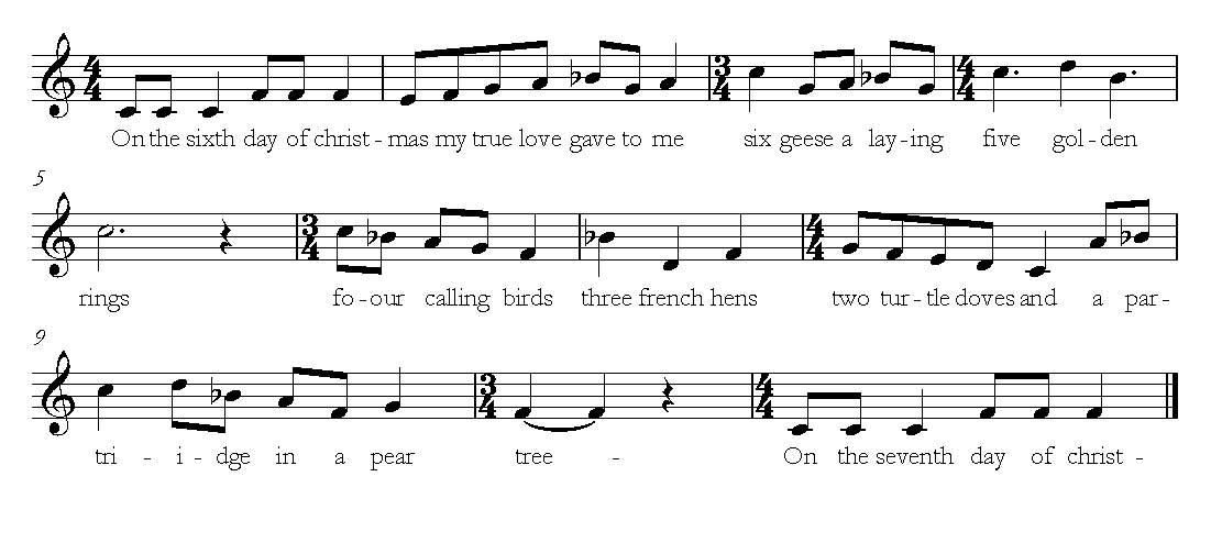 Sixth stanza of the popular song "The Twelve Days of Christmas"